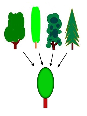 Diagram illustrating the basics of generalization. A concept is extracted from many specific types. Source of diagram: Mentally healthy mind article (see public domain declaration at top). Questions: write to me at my Wikipedia talk page or email me at